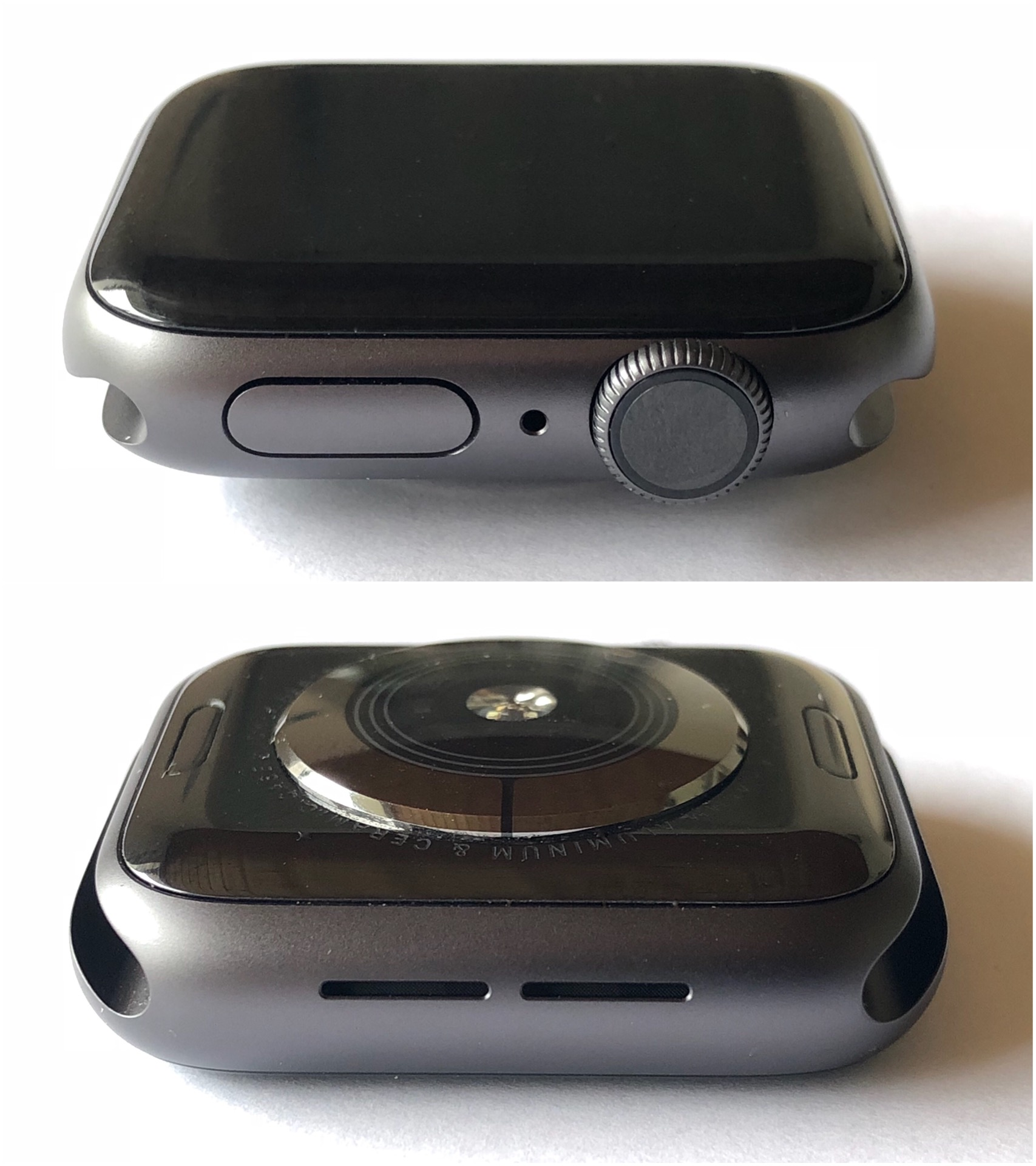 Apple Watch, 40mm Aluminum